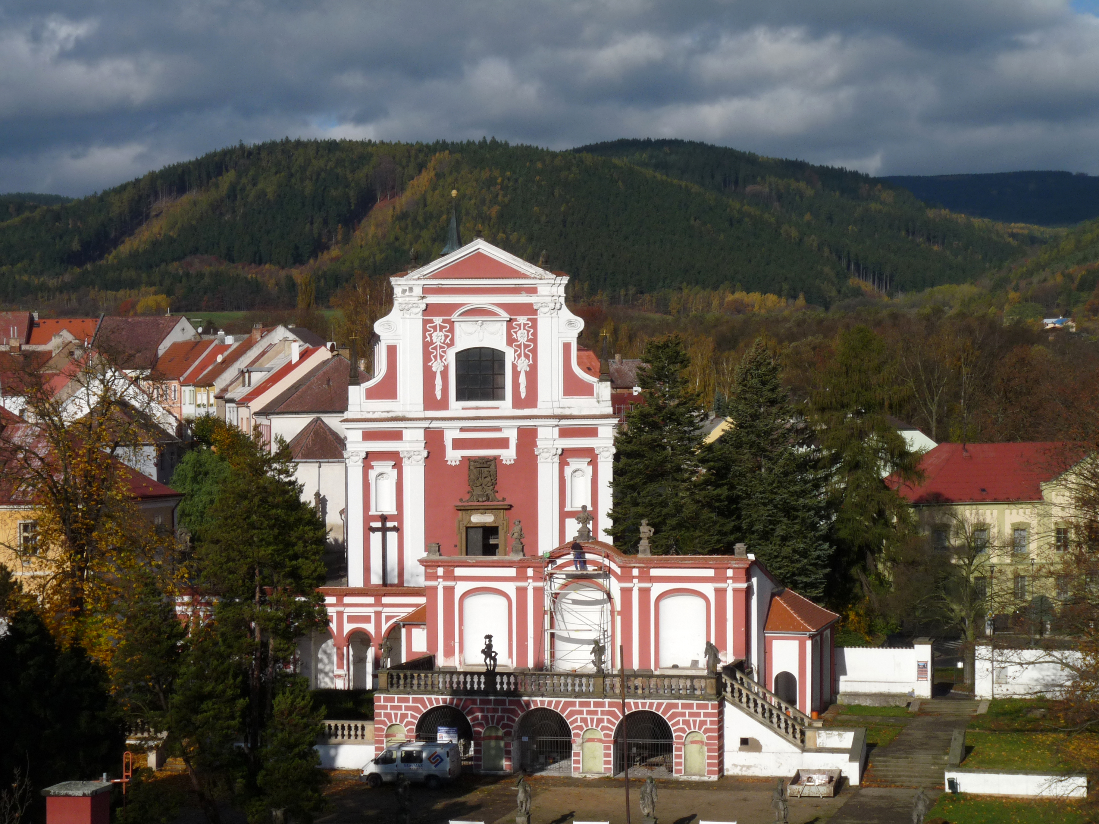 Holy Trinity Church and Sala Terrena as seen from the tower of the chateau in the town of Klášterec nad Ohří, Chomutov District, Ústí nad labem Region, Czech Republic.